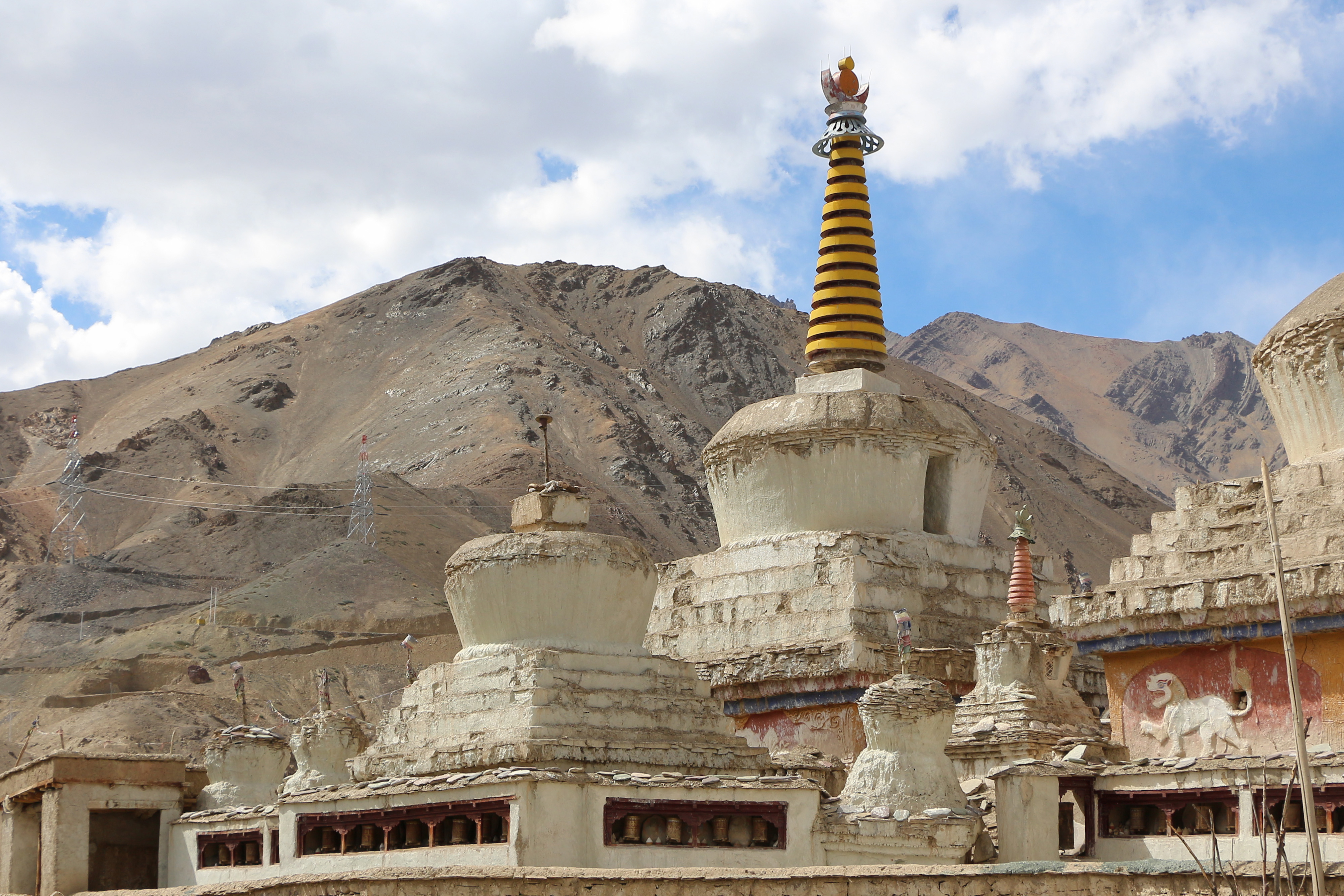 Chortens in Lamayuru Monastery, Ladakh, India